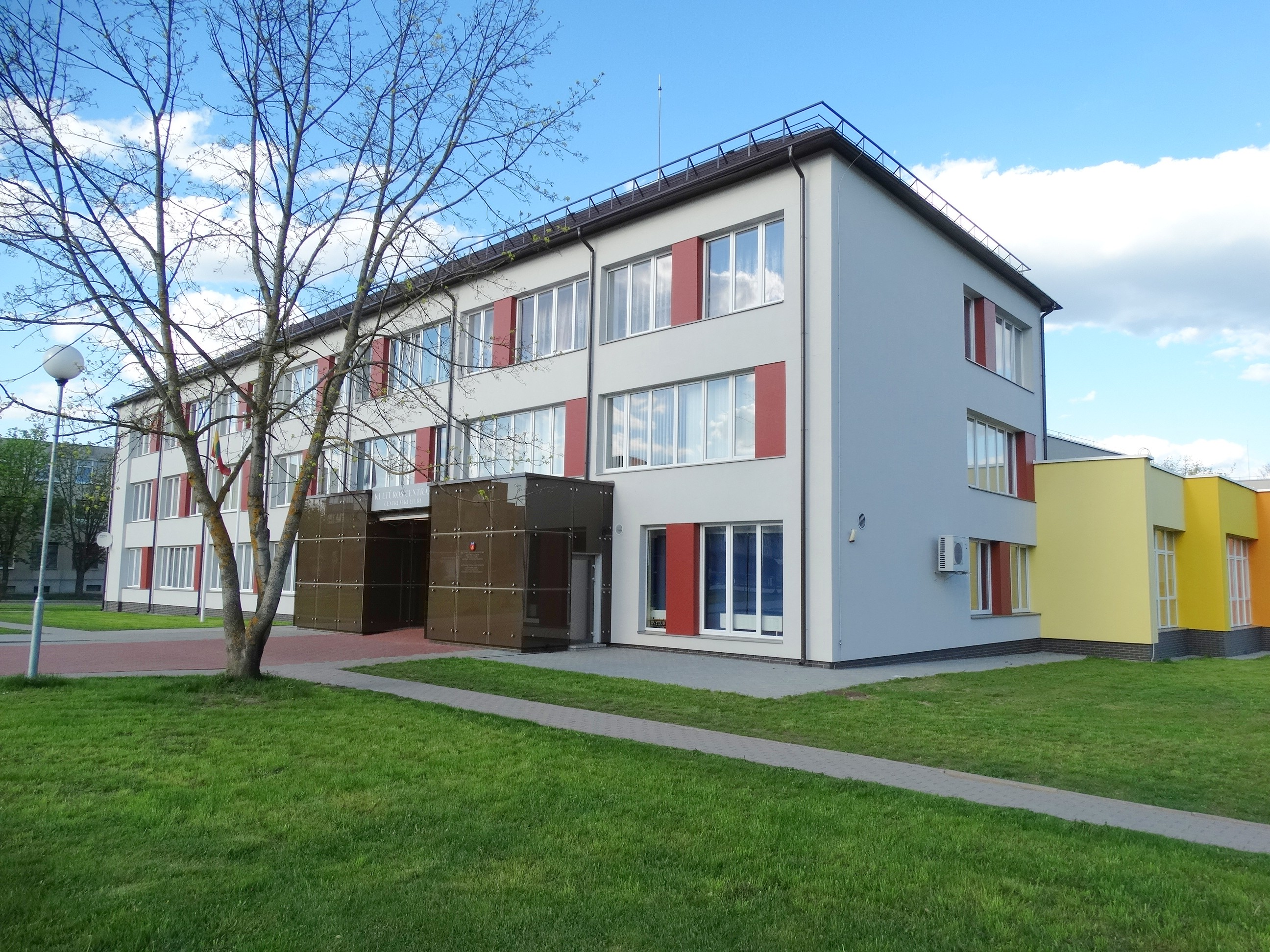 Centre of culture, Šalčininkai, Lithuania